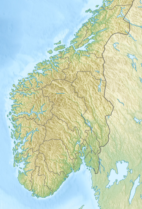 Relief Map of South Norway Equirectangular projection, N/S stretching 210 %. Geographic limits of the map: N: 65.18° N S: 57.6° N W: 4.1° E E: 15.5° E